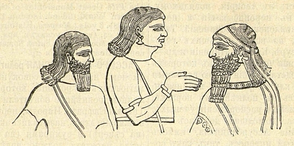 Assyrian dignitaries. Illustration from Orthodox Theological Encyclopedia (1900—1911)